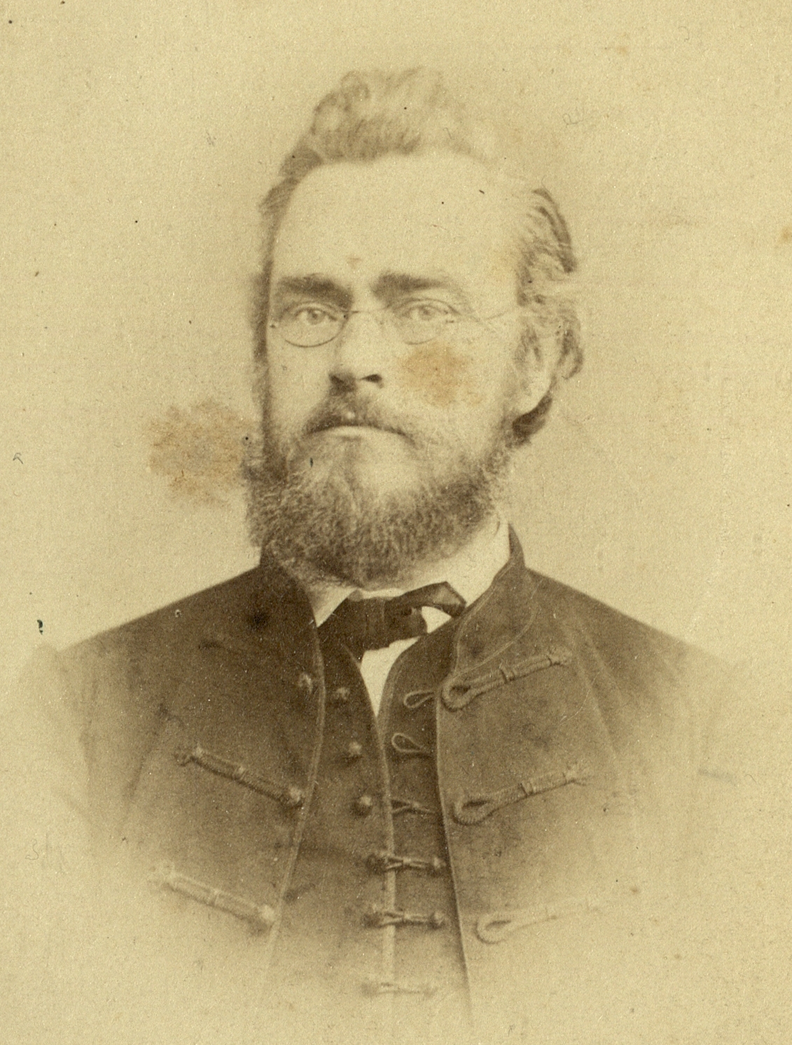 Radoslav Razlag (1826-1880), Slovenian writer, poet and politician; Governor of Carniola